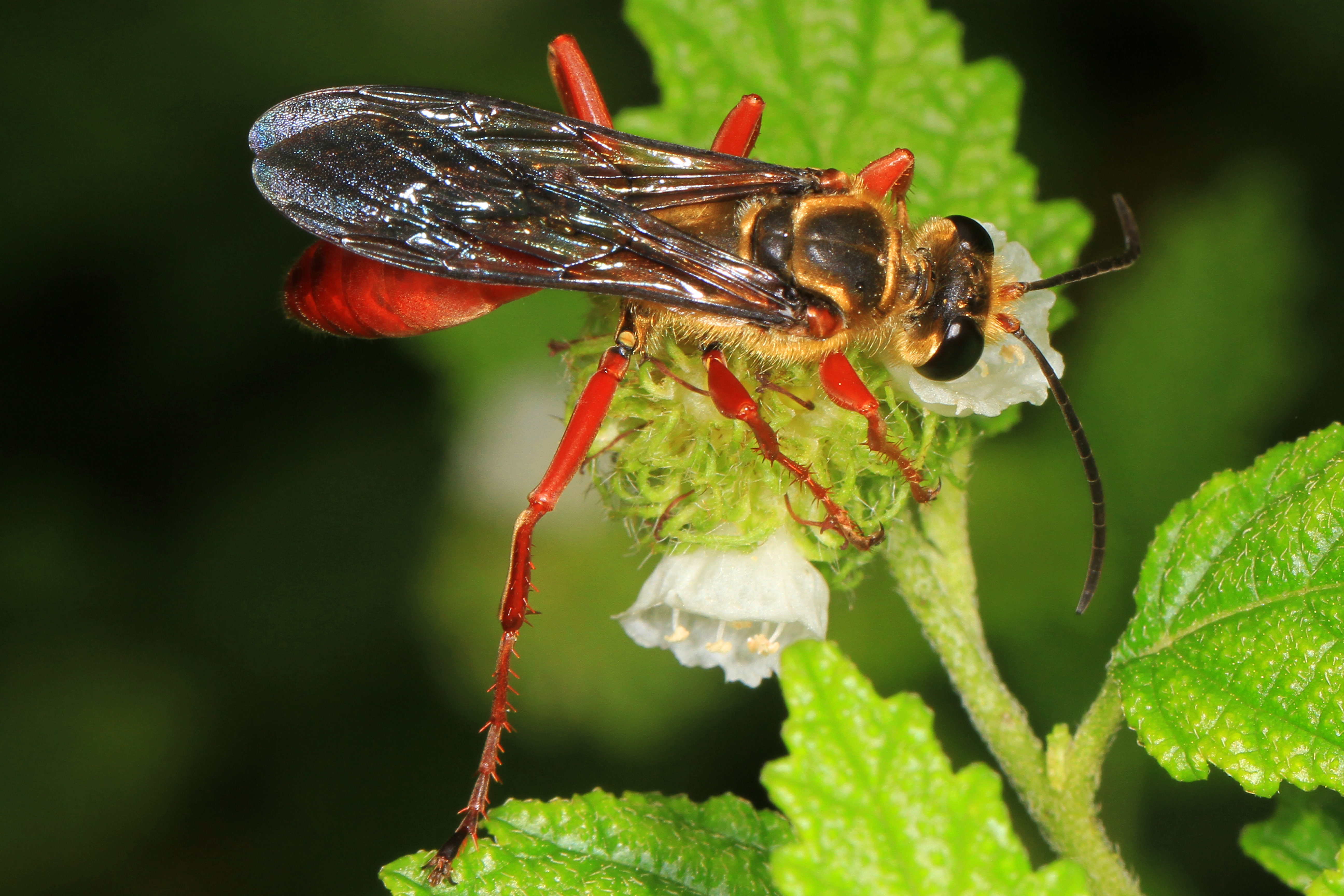 Sphex jamaicensis, Crocodile Lake National Wildlife Refuge, Key Largo, Florida